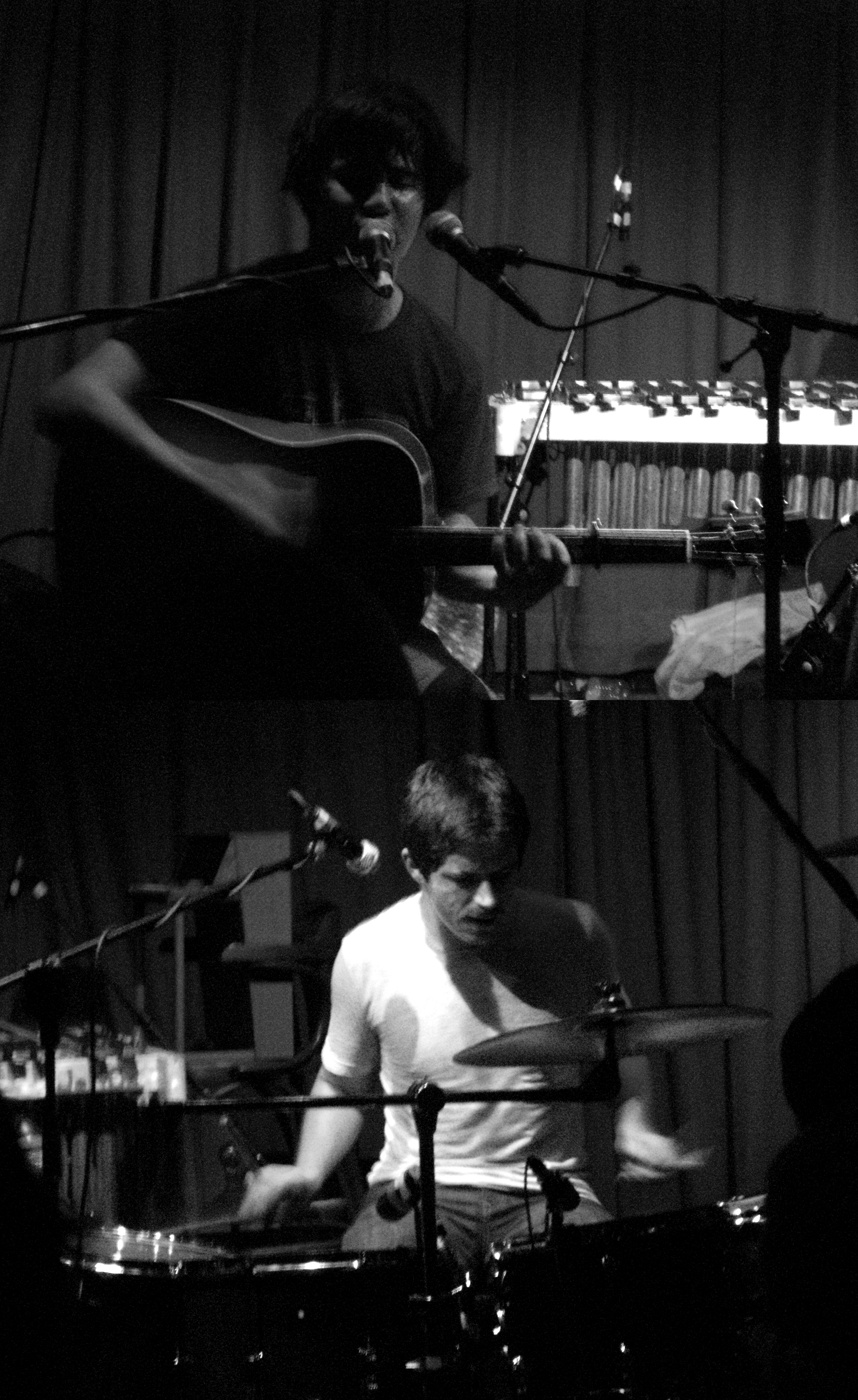 The Dodos performing live at The Faversham, Leeds, UK, 06/09/2008